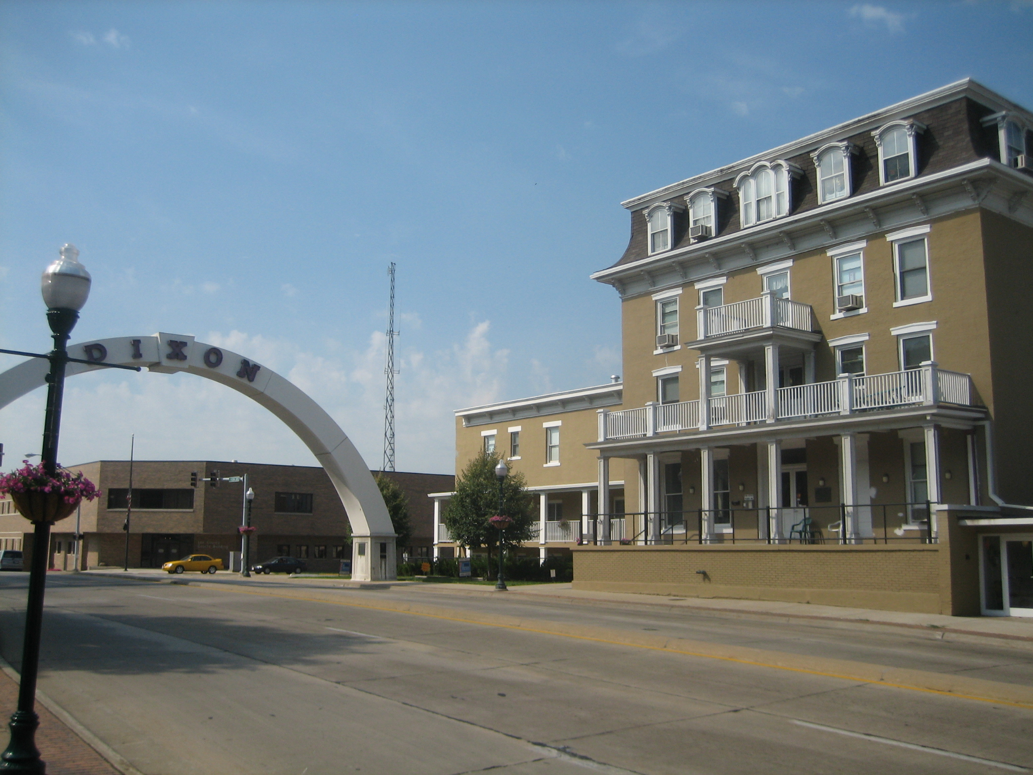 Nachusa House, Dixon, Illinois, United States. U.S. National Register of Historic Places.